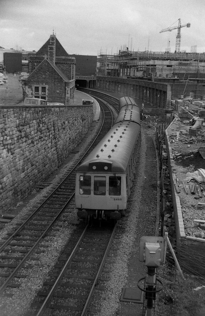 Three car DMU leaving Clifton Down for Sea Mills on Tuesday 27th March 1979. The future shopping centre is being built in the station goods yard.